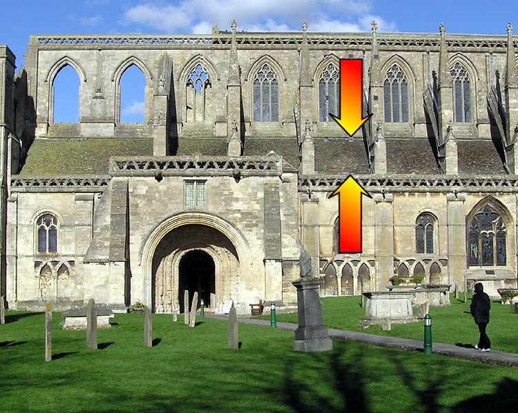 Malmesbury Abbey to show the location of the triforium level (between the arrows). Sorry I got the filename wrong. Taken by Adrian Pingstone in February 2005 and released to the public domain.